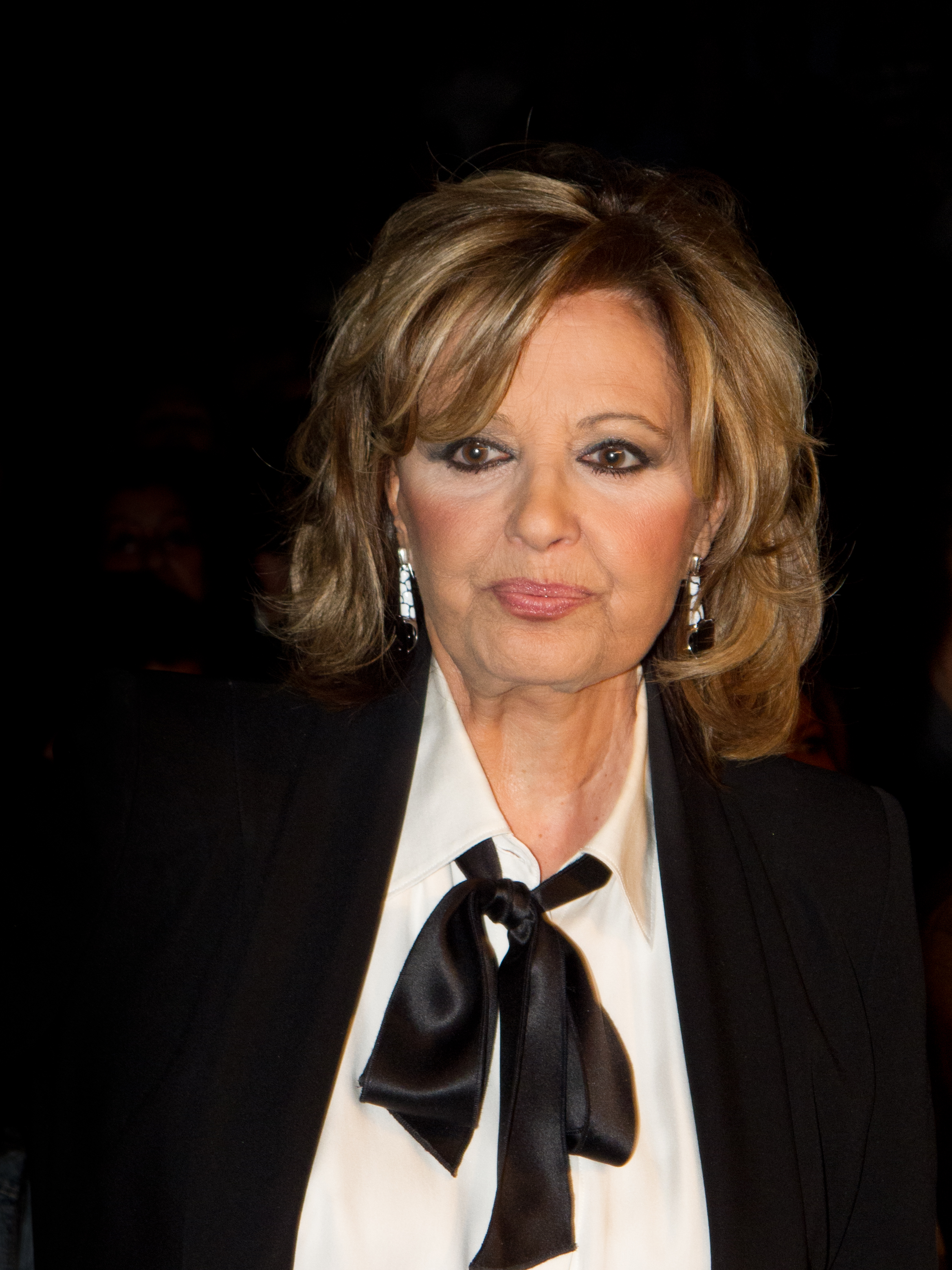 María Teresa Campos, Spanish TV presenter.